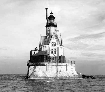 Undated USCG phootgraph of the Racine Reef Light